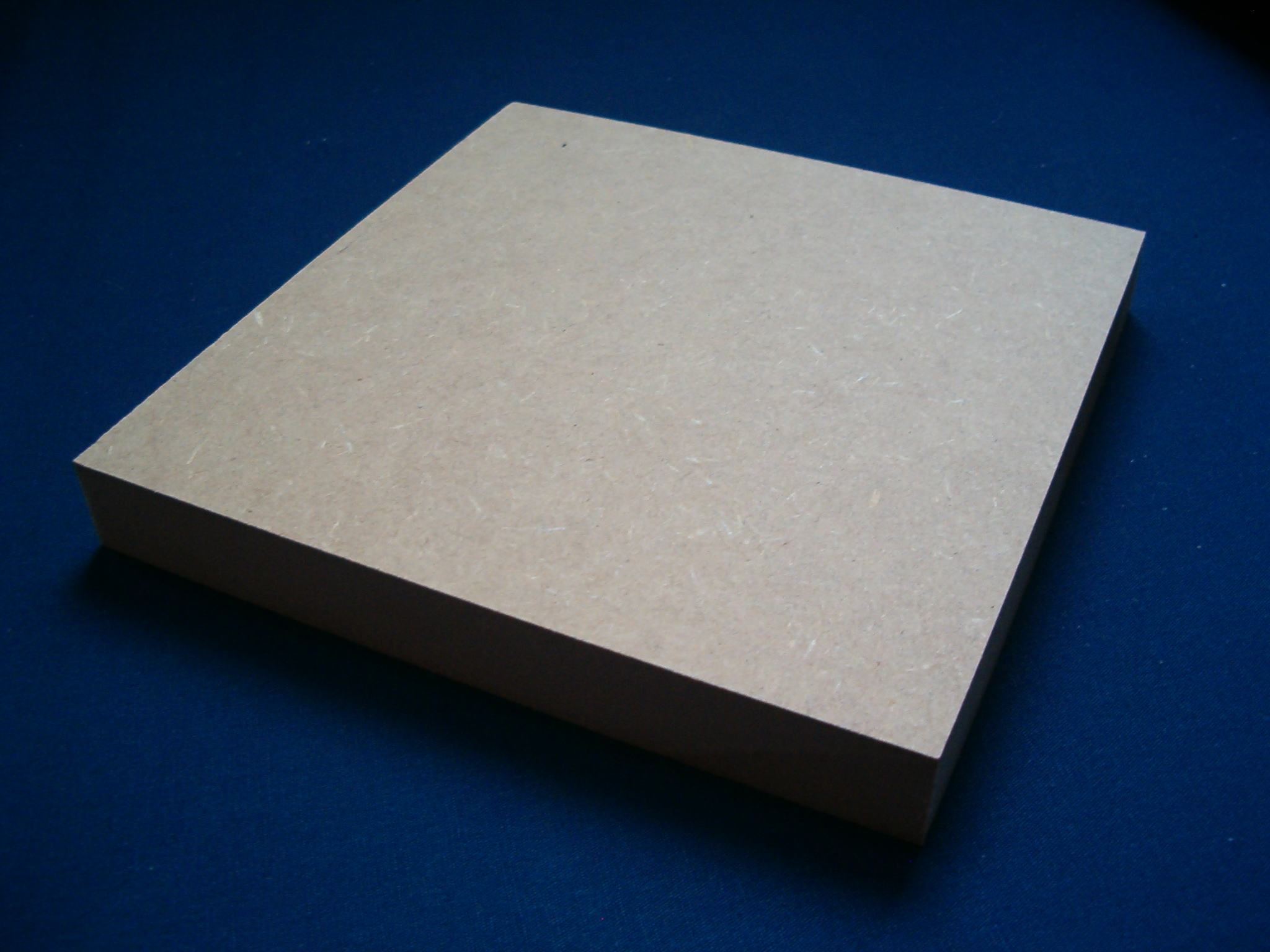 Medium-density fibreboard